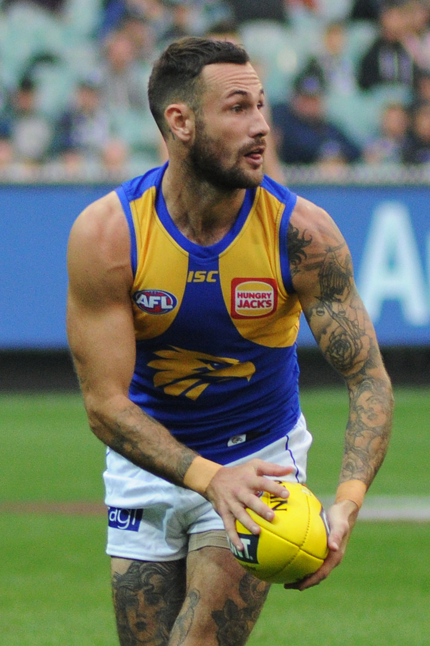 Chris Masten during the AFL round five match between Carlton and West Coast on 21 April 2018 at the Melbourne Cricket Ground in Melbourne, Victoria.